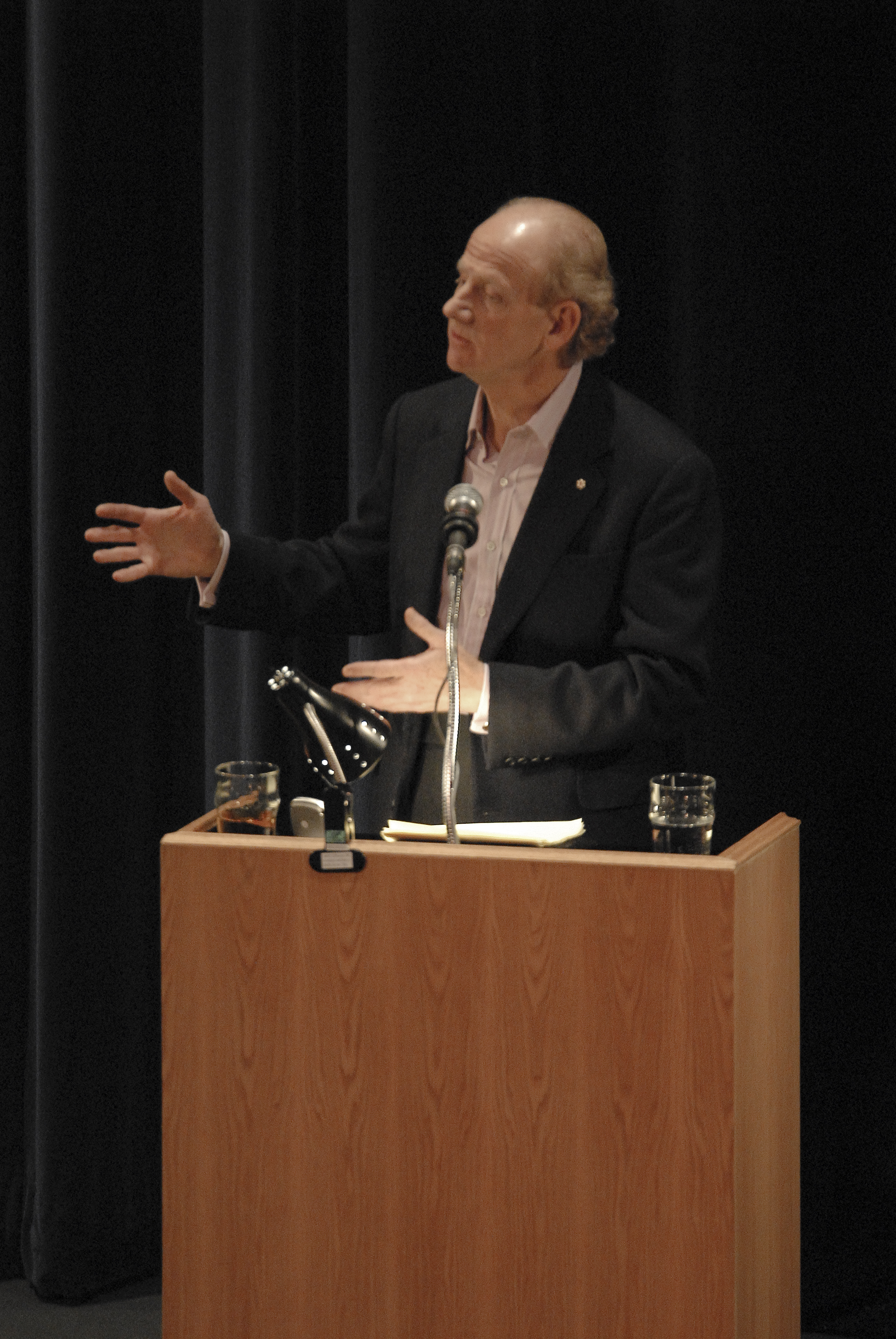 The Parkland Institute held its 10th annual Parkland Conference at the University of Alberta titled "Power for the People: Determining Our Energy Future". Canadian bestselling essayist and novelist John Ralston Saul kicked off the conference with a keynote speech on Friday, November 17th.